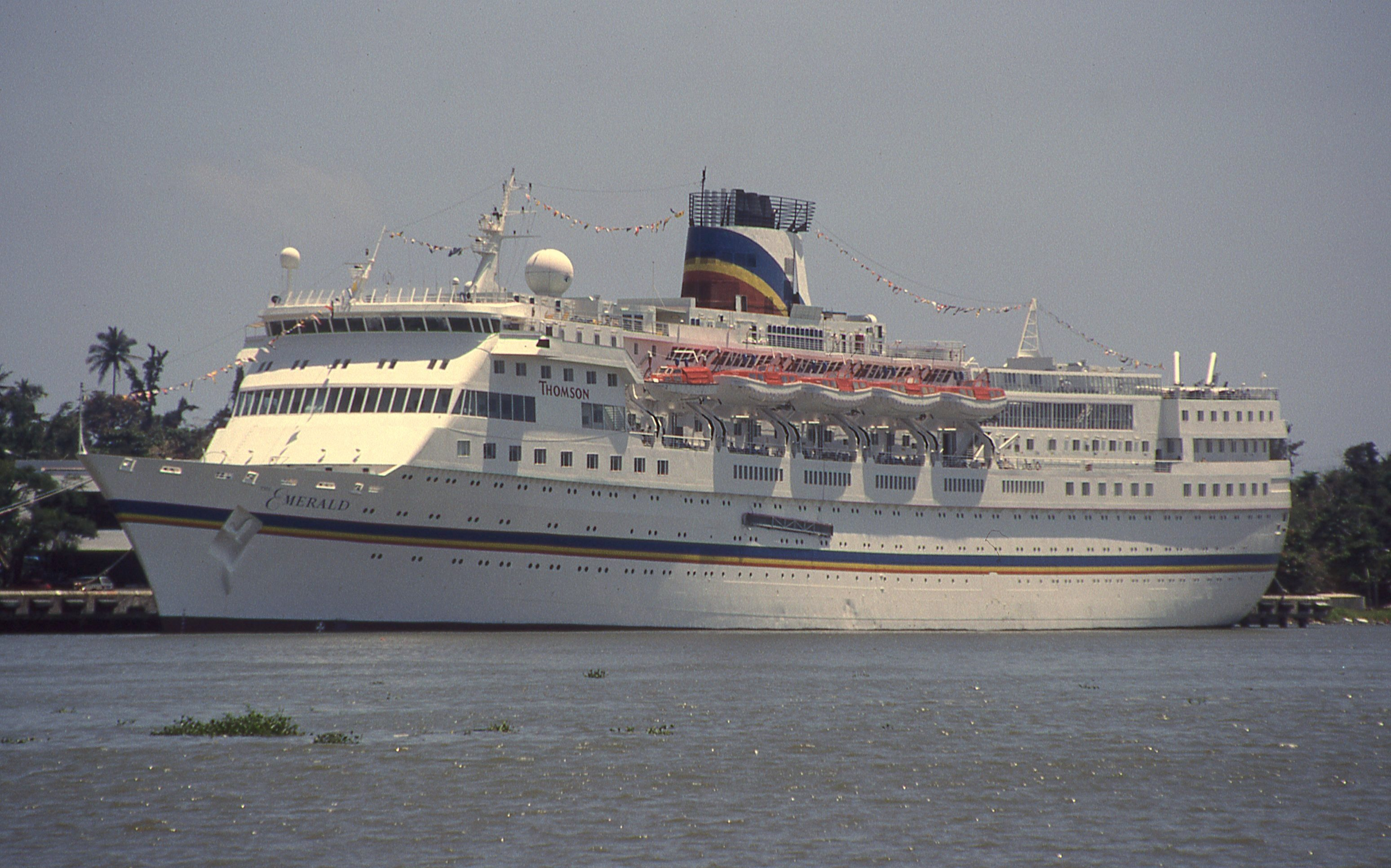 The cruise ship The Emerald at Santo Domingo on March 29, 1999.